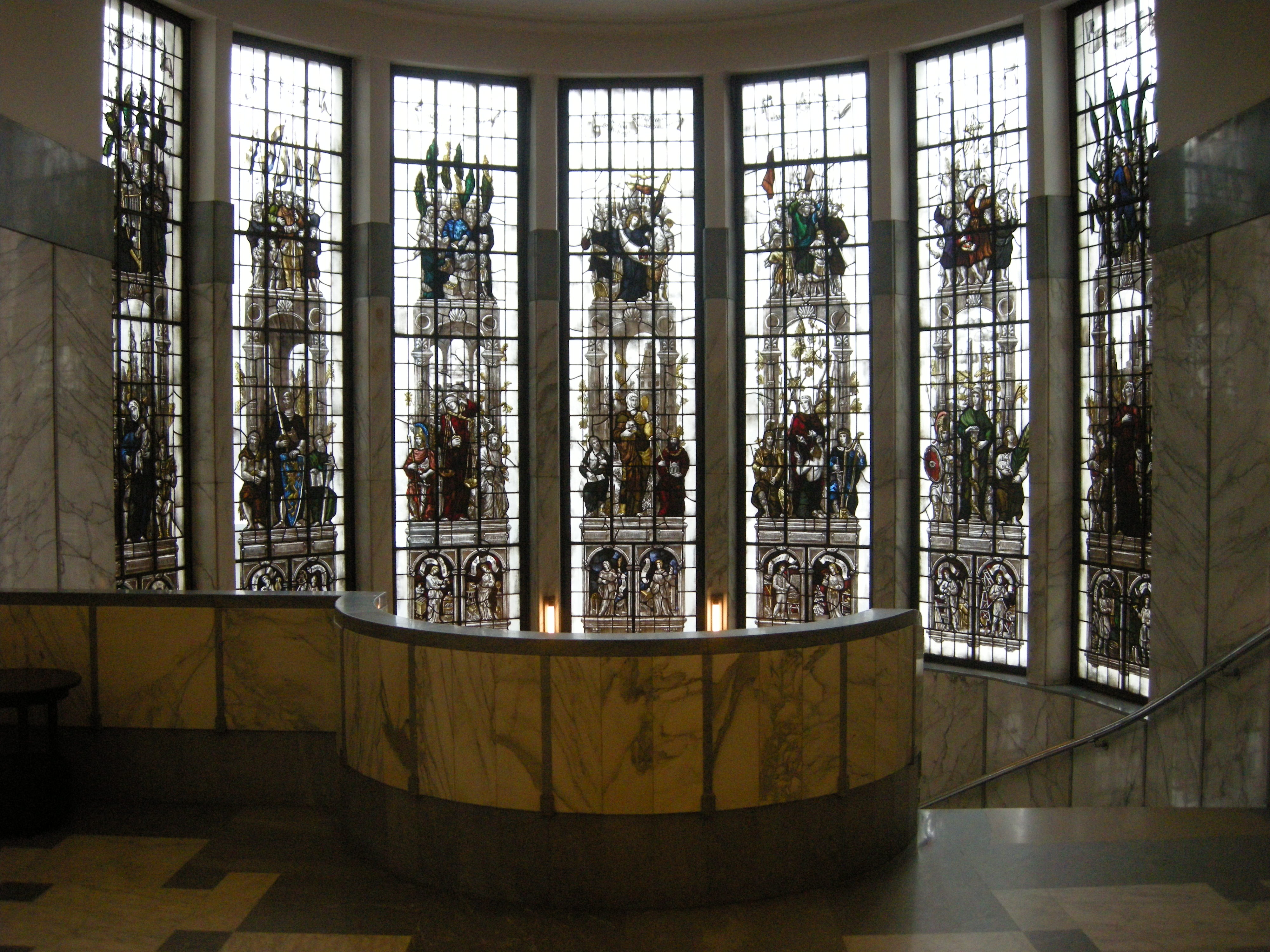 Stained windows in the stairwell of the town hall in Tilburg.